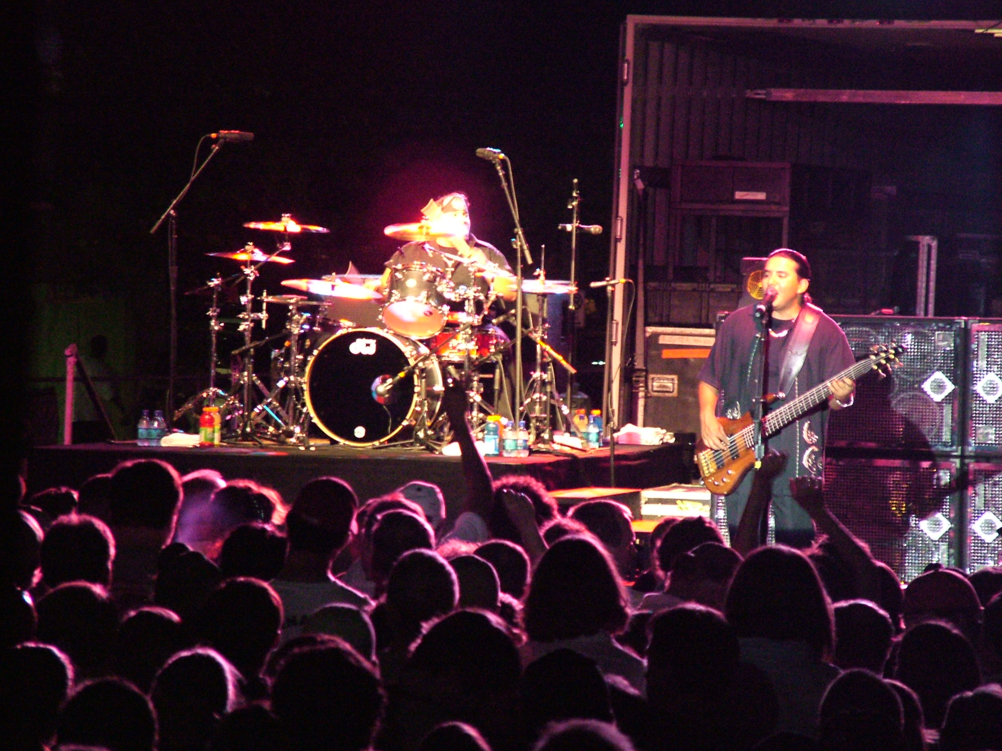 Los Lonely Boys on the Stage.